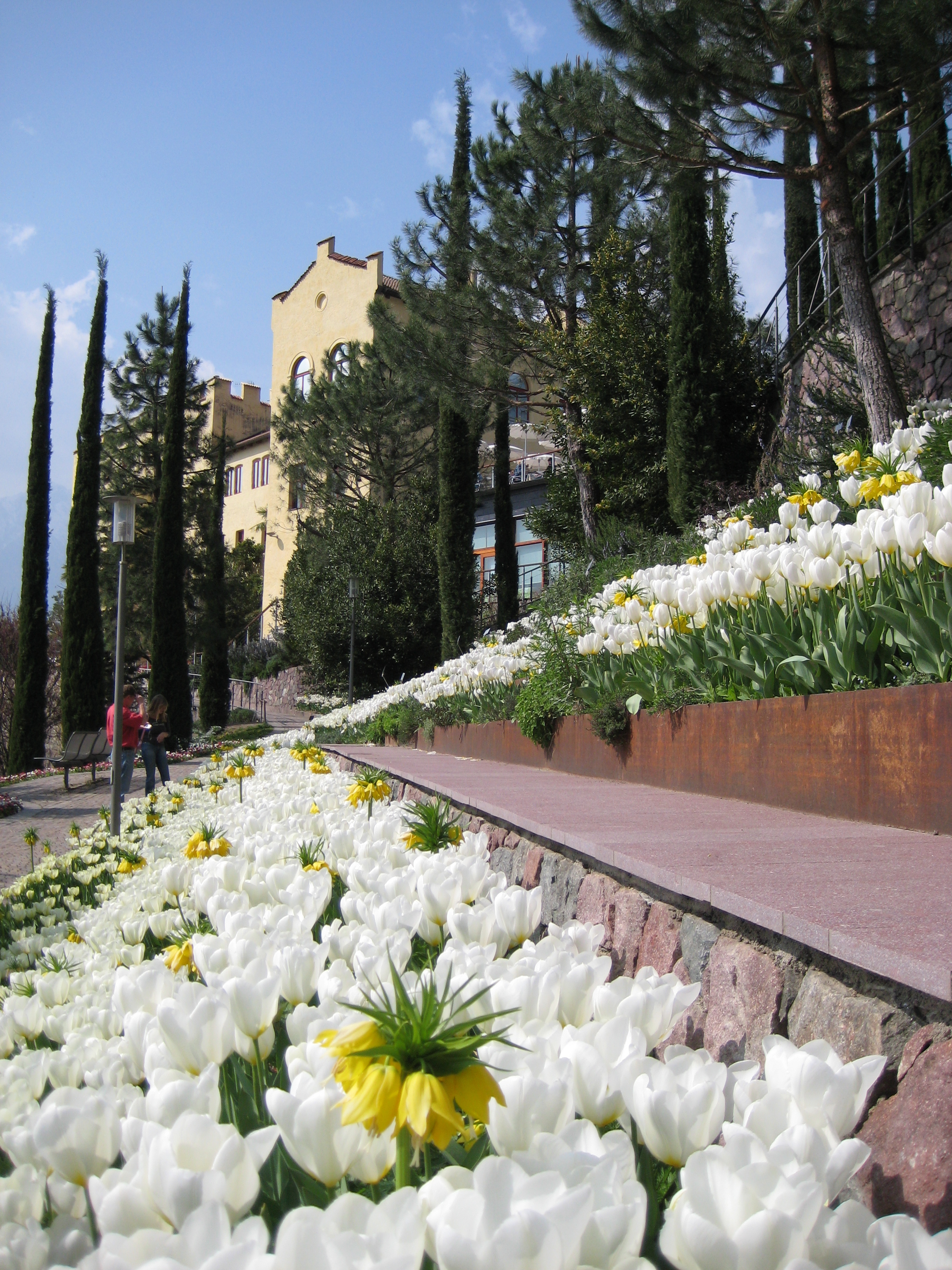 Trauttmansdorff Castle, Merano